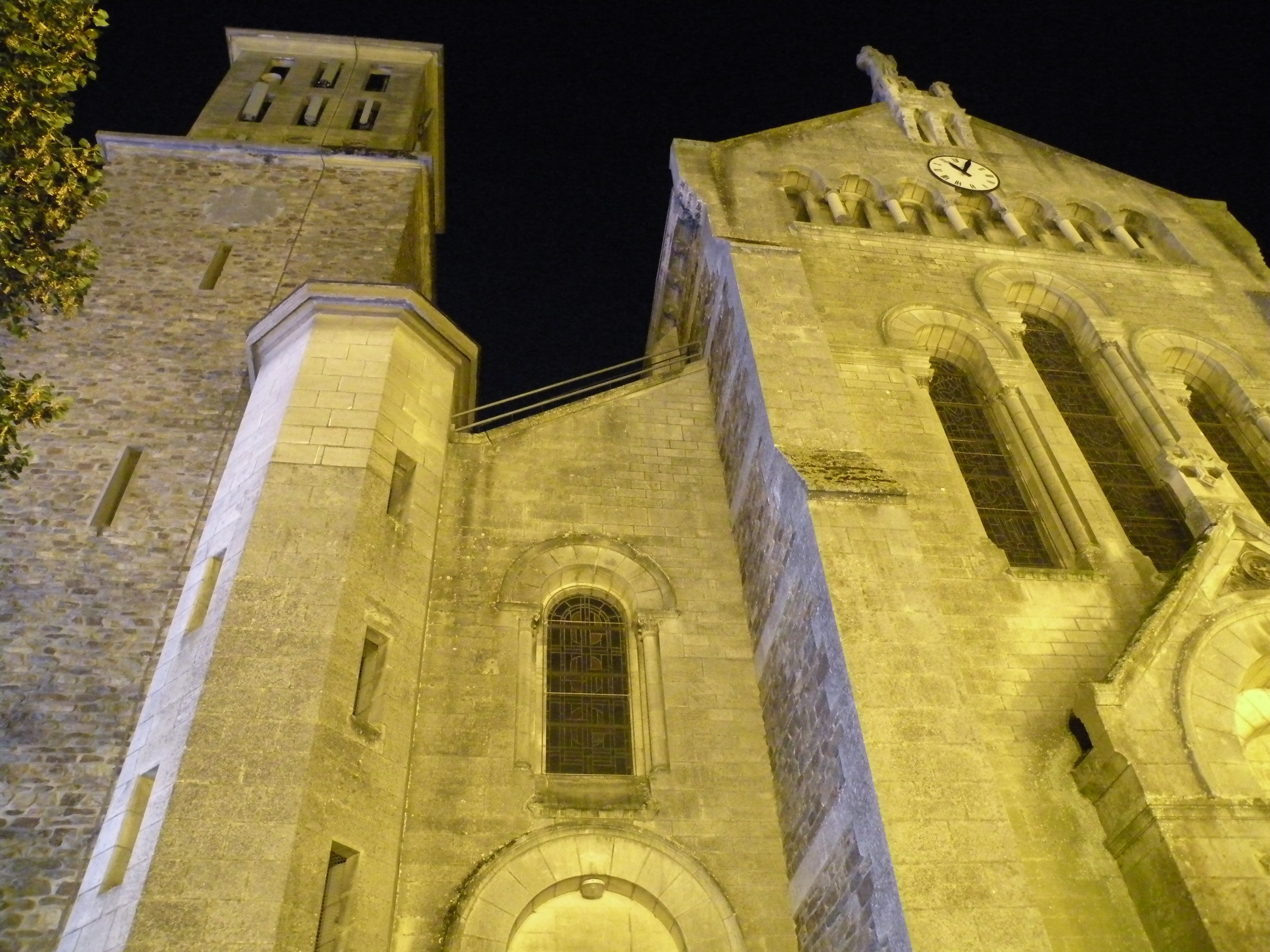 Saint-Pierre church in Bouguenais.